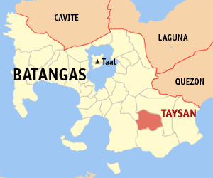 Map of Batangas showing the location of Taysan